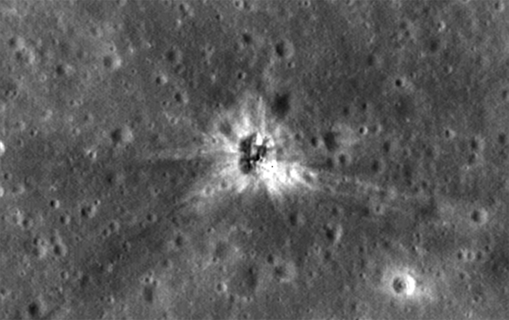 After decades of uncertainty, the Apollo 16 S-IVB impact site on the lunar surface has been identified. S-IVBs were portions of the Saturn V rockets that brought astronauts to the moon. The site was identified in imagery from the high-resolution LROC Narrow Angle Camera aboard NASA's Lunar Reconnaissance Orbiter. Beginning with Apollo 13, the S-IVB rocket stages were deliberately impacted on the lunar surface after they were used. Seismometers placed on the moon by earlier Apollo astronauts measured the energy of these impacts to shed light on the internal lunar structure. Locations of the craters that the boosters left behind were estimated from tracking data collected just prior to the impacts. Earlier in the LRO mission, the Apollo 13, 14, 15 and 17 impact sites were successfully identified, but Apollo 16's remained elusive. In the case of Apollo 16, radio contact with the booster was lost before the impact, so the location was only poorly known. Positive identification of the Apollo 16 S-IVB site took more time than the other four impact craters because the location ended up differing by about 30 km (about 19 miles) from the Apollo-era tracking estimate. (For comparison, the other four S-IVB craters were all within 7 km -- about four miles -- of their estimated locations.) Apollo 16's S-IVB stage is on Mare Insularum, about 160 miles southwest of Copernicus Crater (more precisely: 1.921 degrees north, 335.377 degrees east, minus 1,104 meters elevation). Credit: NASA/Goddard/Arizona State University NASA image use policy. NASA Goddard Space Flight Center enables NASA’s mission through four scientific endeavors: Earth Science, Heliophysics, Solar System Exploration, and Astrophysics. Goddard plays a leading role in NASA’s accomplishments by contributing compelling scientific knowledge to advance the Agency’s mission. Follow us on Twitter Like us on Facebook Find us on Instagram